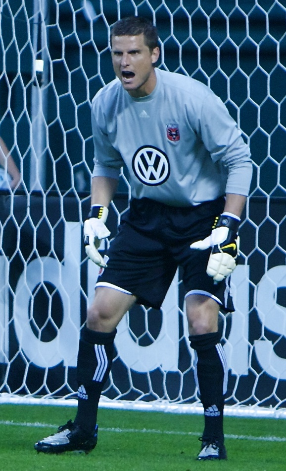 This file has been extracted from another file: Clyde Simms and Zach Wells.jpg